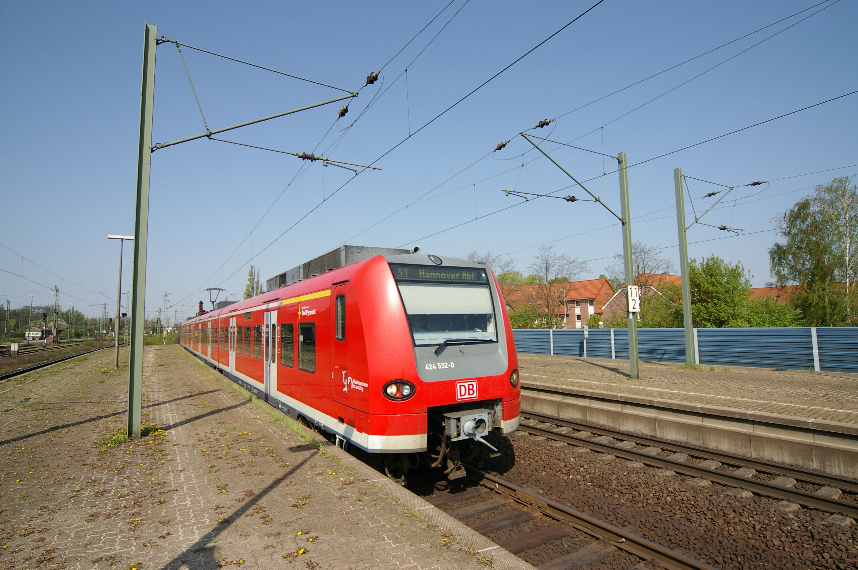 train series 424 532-0